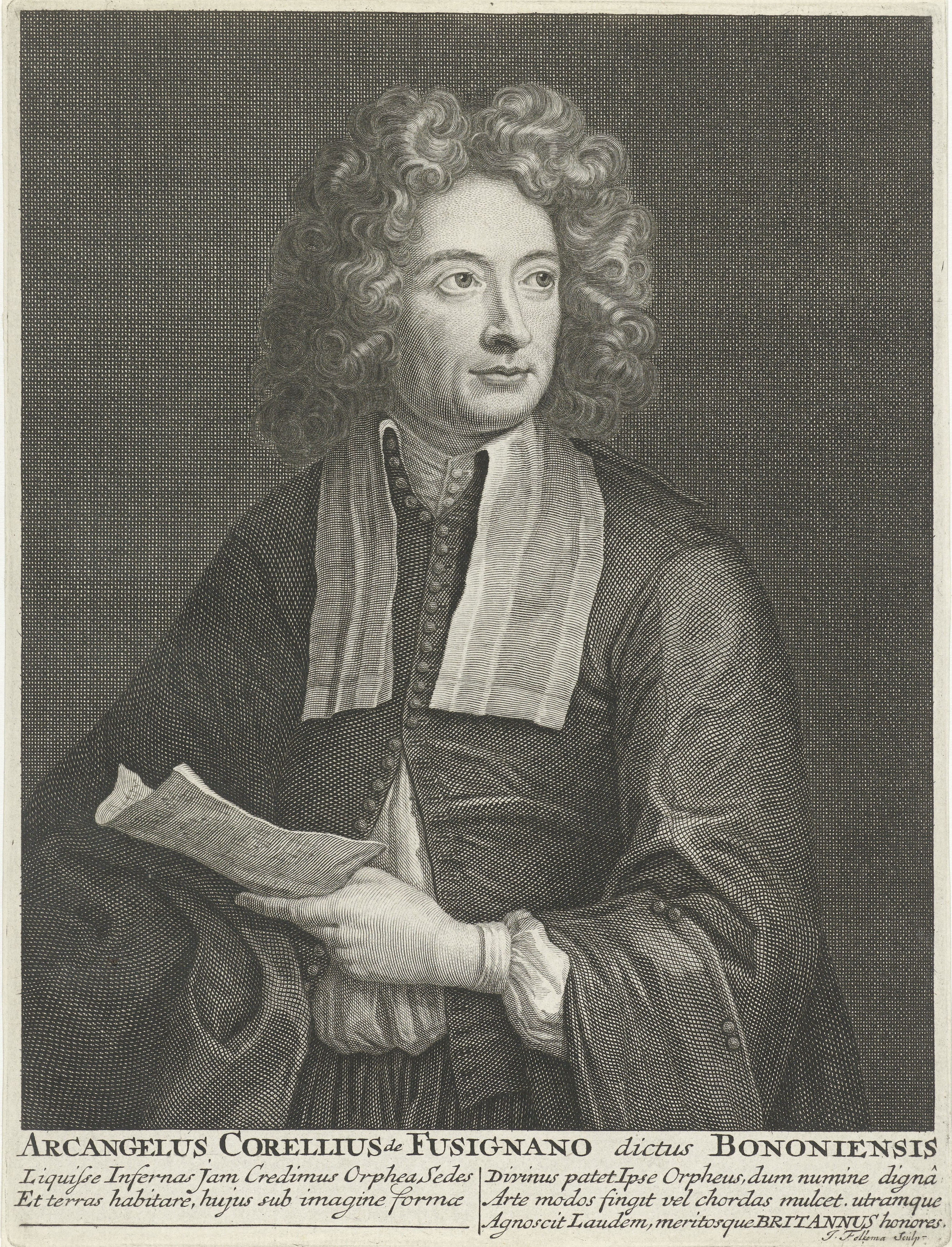 Depicted person: Arcangelo Corelli, engraving